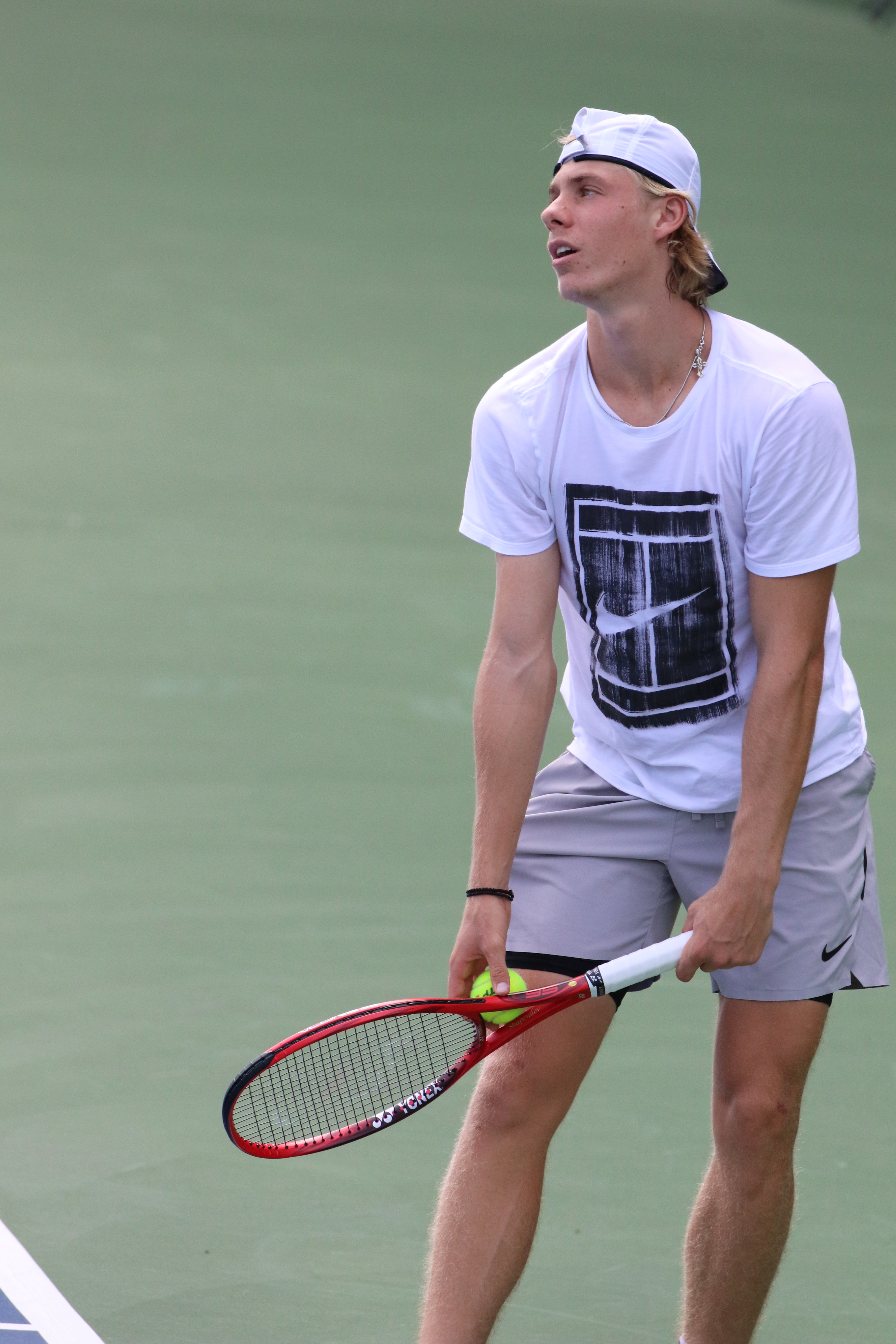 2018 Citi Open